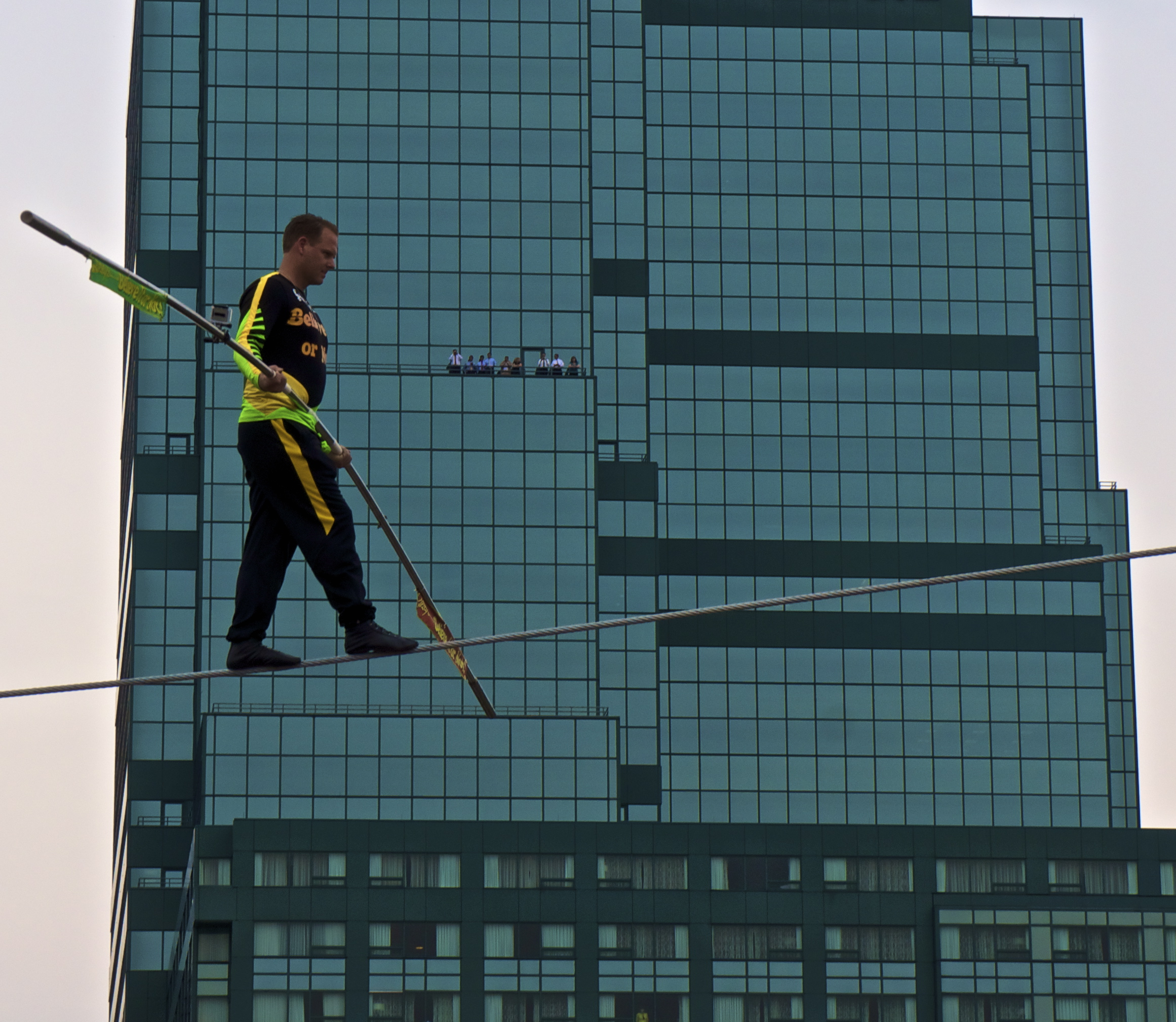 Nik Wallenda walks a tightrope over Baltimore's Inner Harbour, on a 1-inch cable.